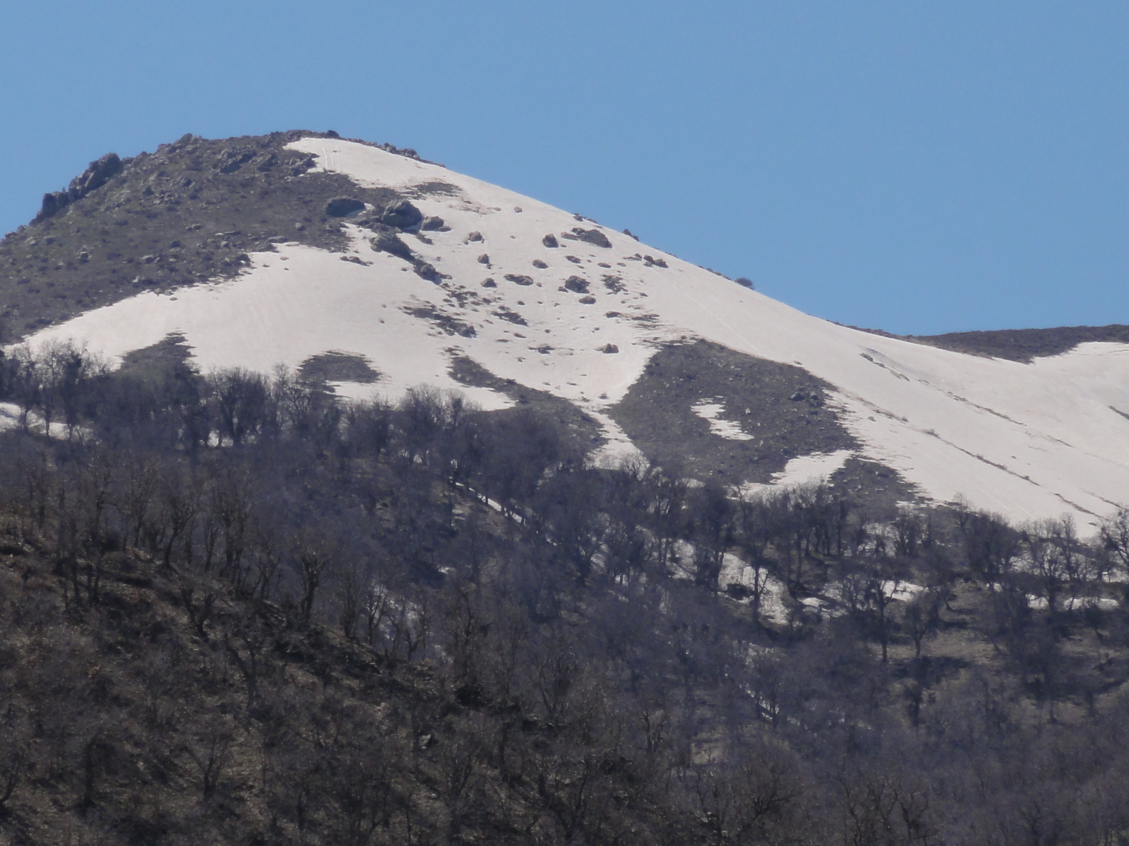 Qalate Mount